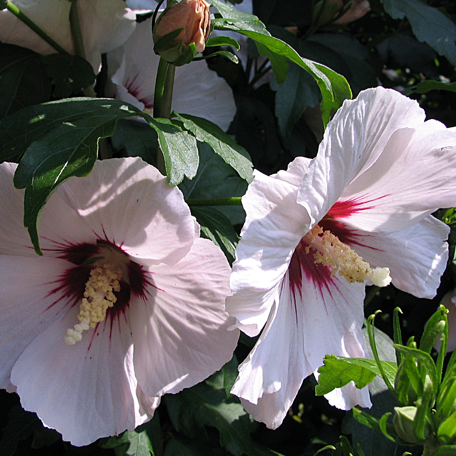 Hibiscus syriacus 'Melrose' flowers.